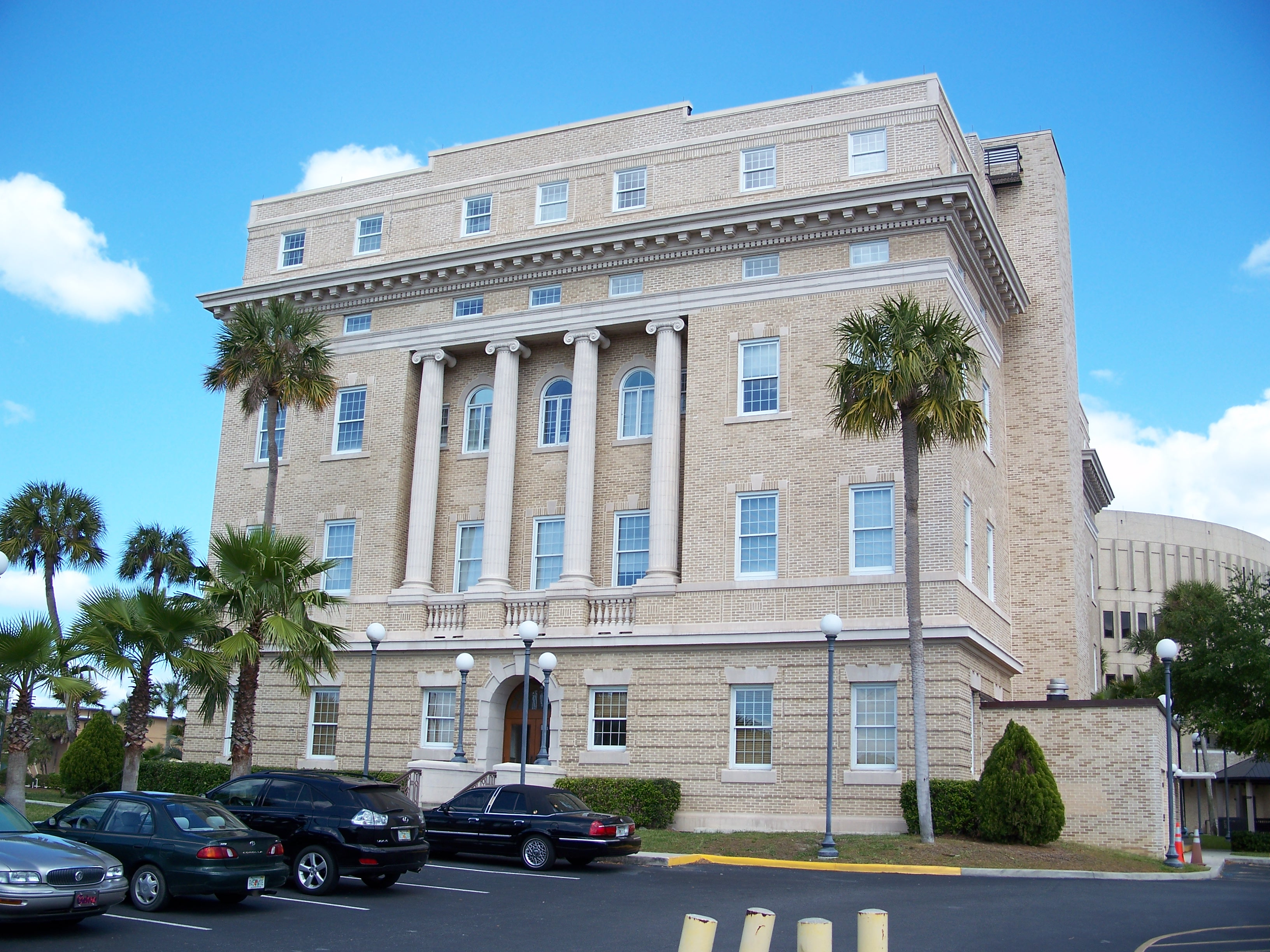 Old Lake County Courthouse (Florida), in Tavares, Florida